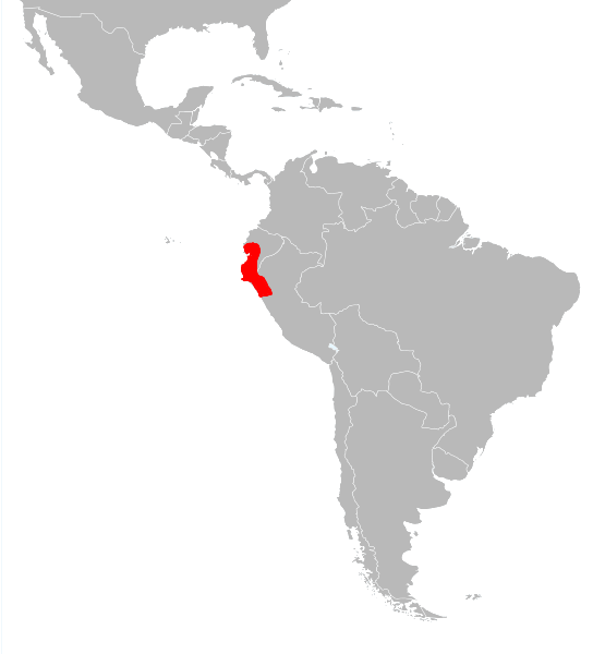 range of Guayaquil squirrel Sciurus stramineus